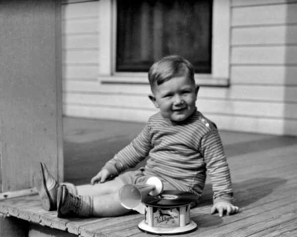 A smiling young boy, in a striped shirt, sitting on a wooden deck next to a small toy phonograph.